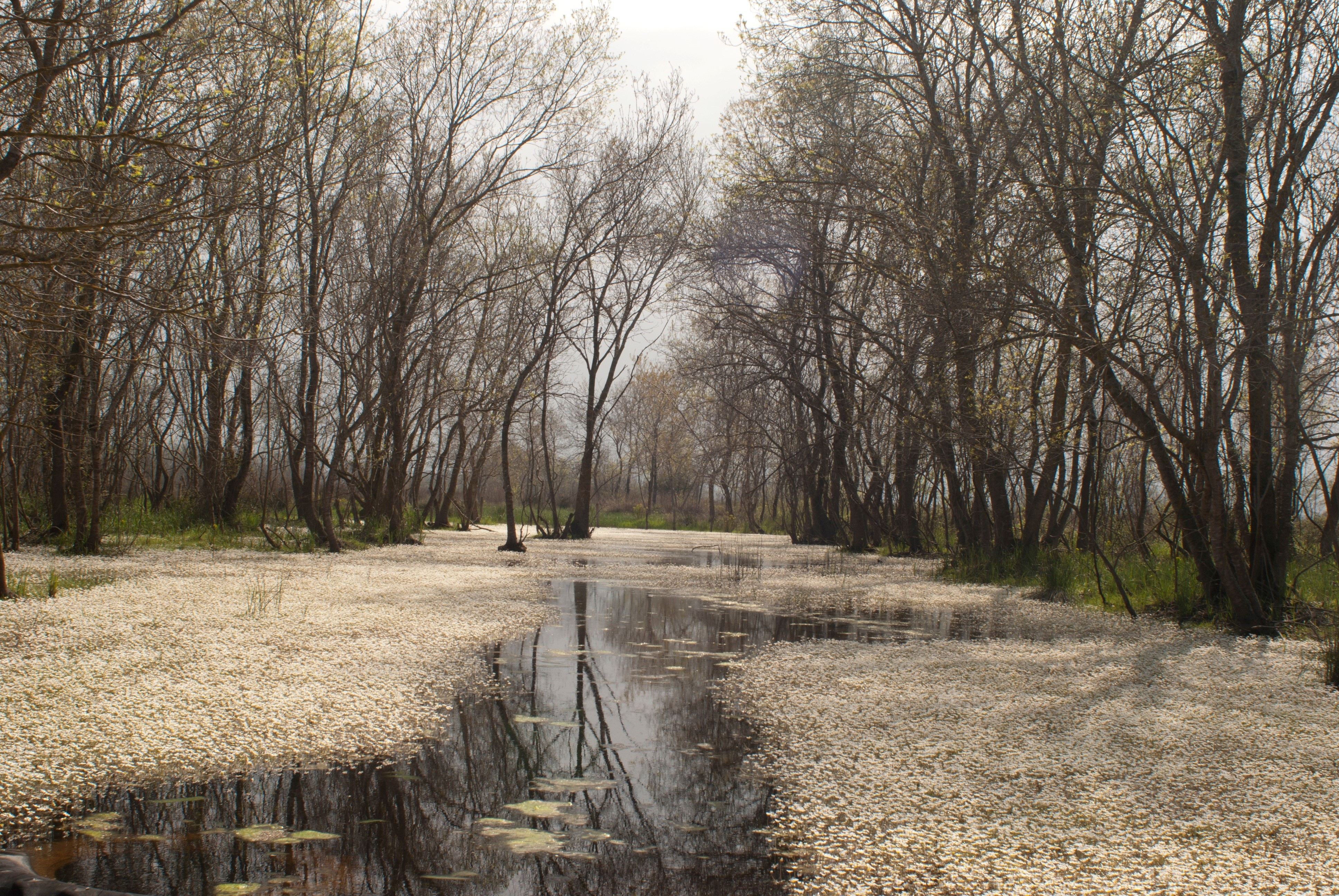 Coastal Floodplain Forest at Kızılırmak Delta